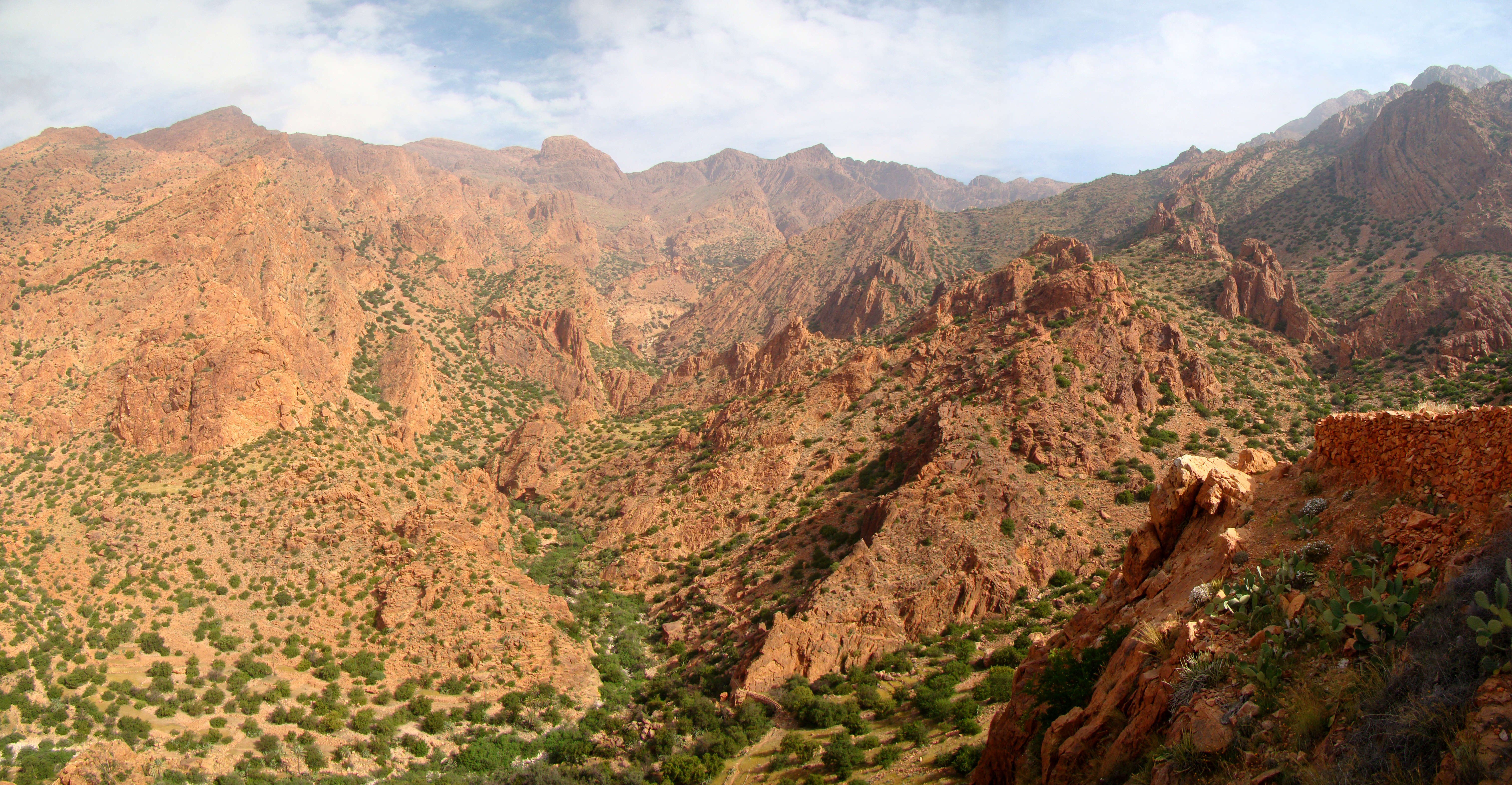 A part of the Anti-Atlas mountains seen from the south, in the Ameln Valley near Tafraout.